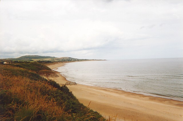 Brittas Bay near to Haughtons Bridge and Jack White's Cross Roads, County Wicklow, Ireland